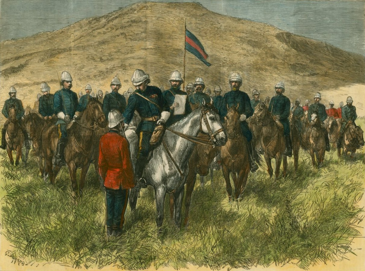 The Zulu War - Sir Garnet Wolseley presenting the Victoria Cross to Major Chard, Royal Engineers, at Inkwenke Camp.